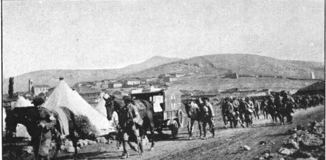 Scottish Women's Hospital - Ostrovo - Dressing station at Gornichevo